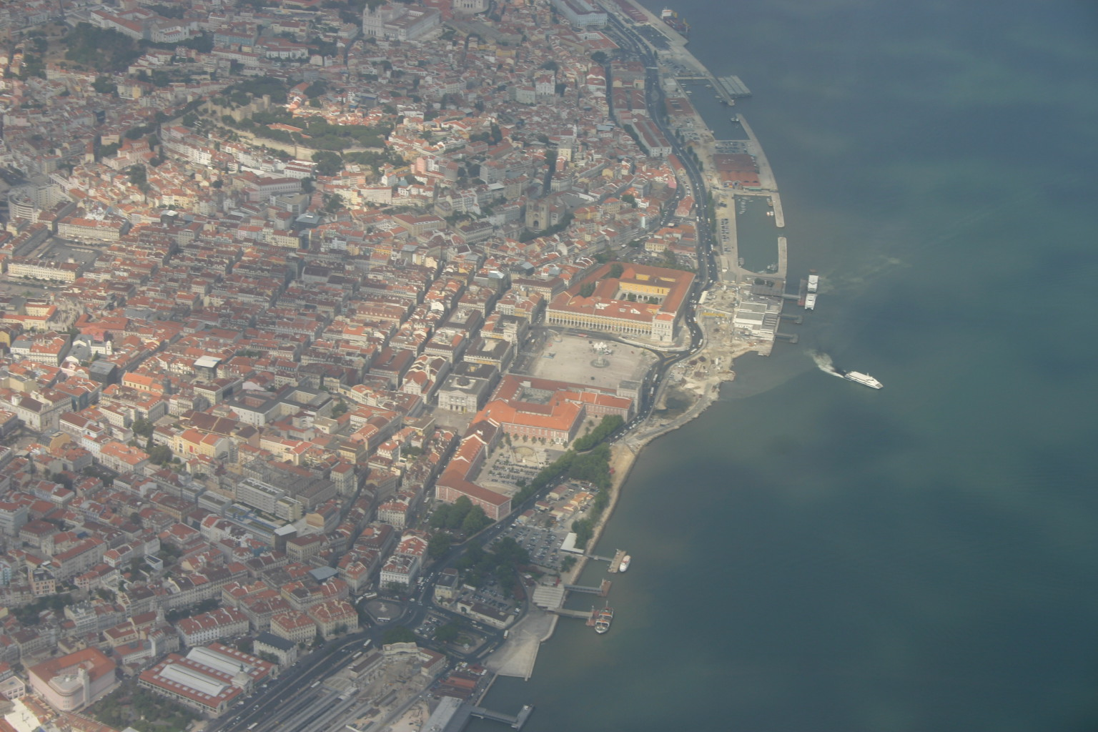 Aerial photo of Terreiro do Paço, Lisbon.